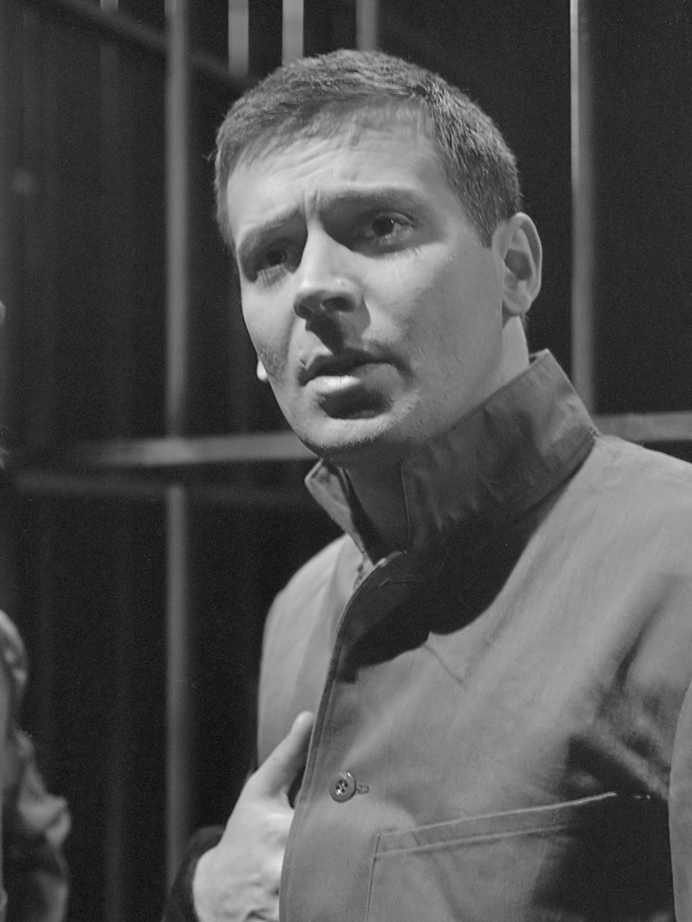 Toneelstuk Sacco en Vanzetti, de twee hoofdrolspelers links Henk van Ulsen en rechts Wies Andersen 15 maart 1966